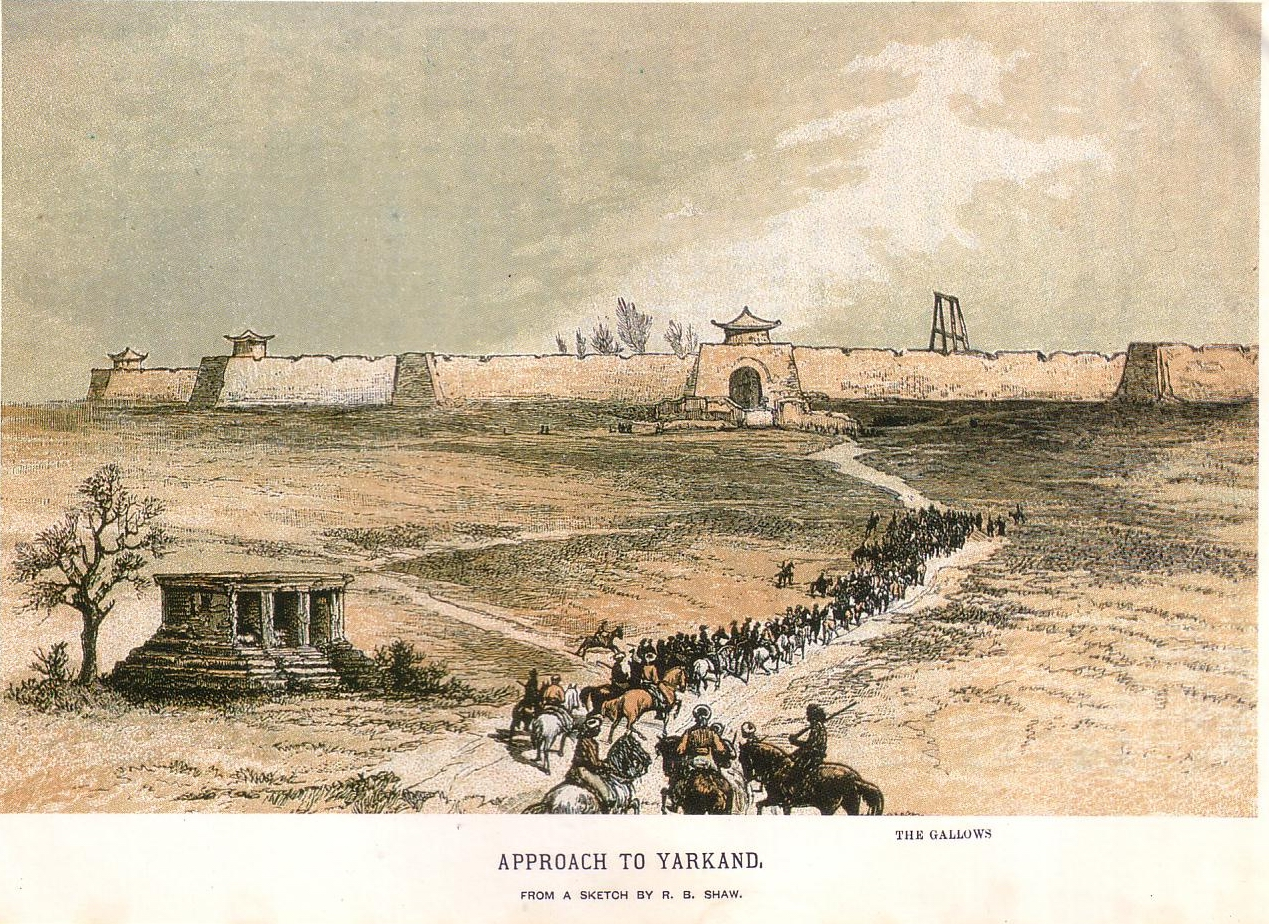 Approach to Yarkand, and the gallows. Picture drawn in 1868 by Robert B. Shaw